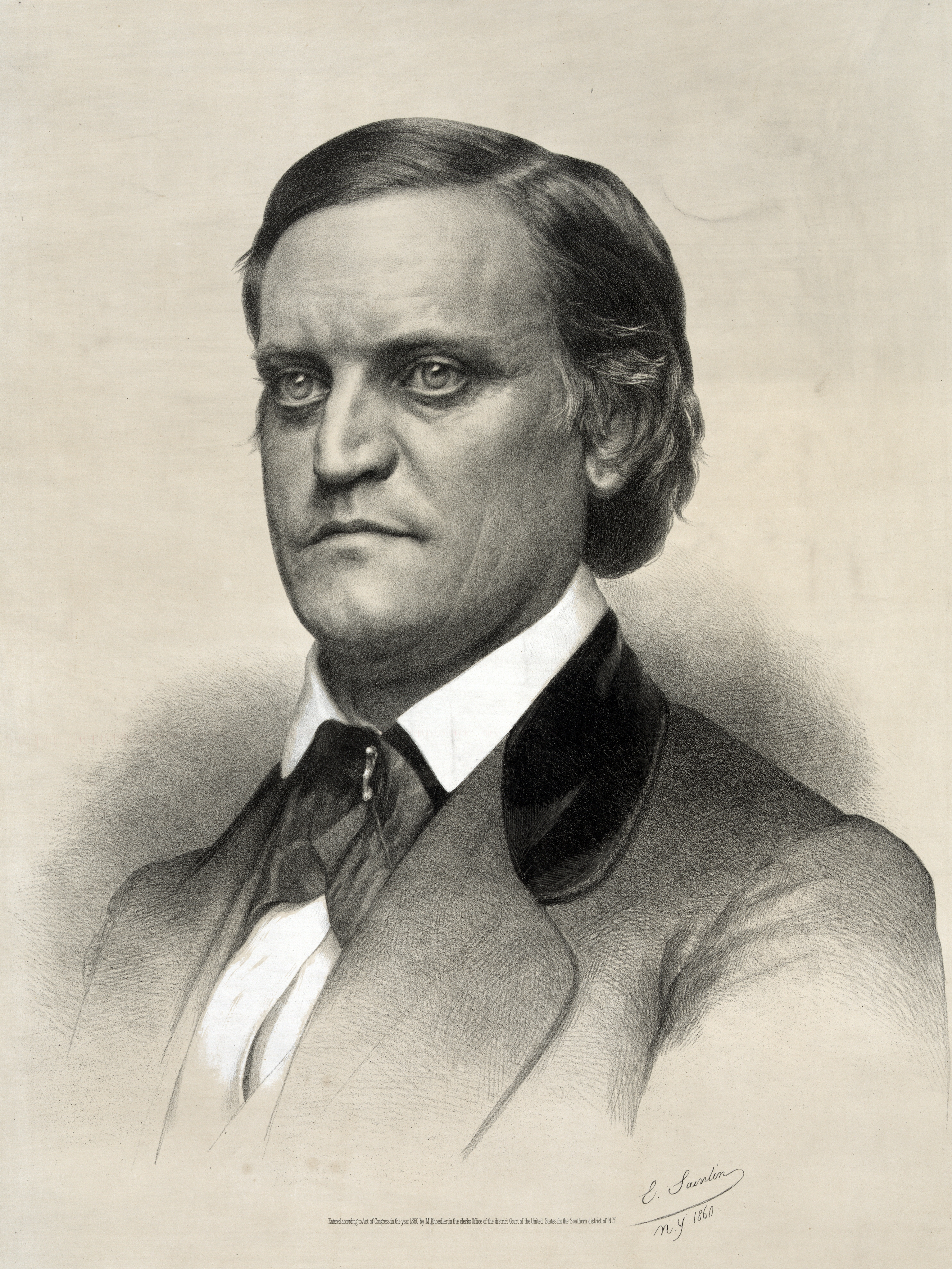 Vice President of the United States John Cabell Breckinridge (1821-1875) by Jules Émile Saintin (1829-1894) after a photograph by Mathew Brady (1822-1896)